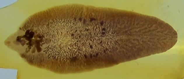 Slide of Fasciola hepatica, from teaching slides at the University of Edinburgh.